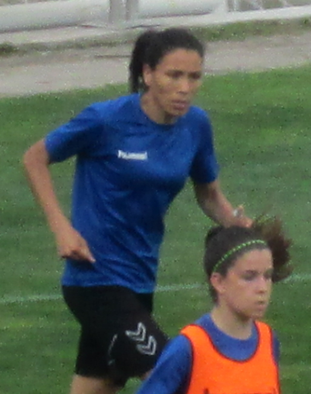 MARIELA CORONEL.